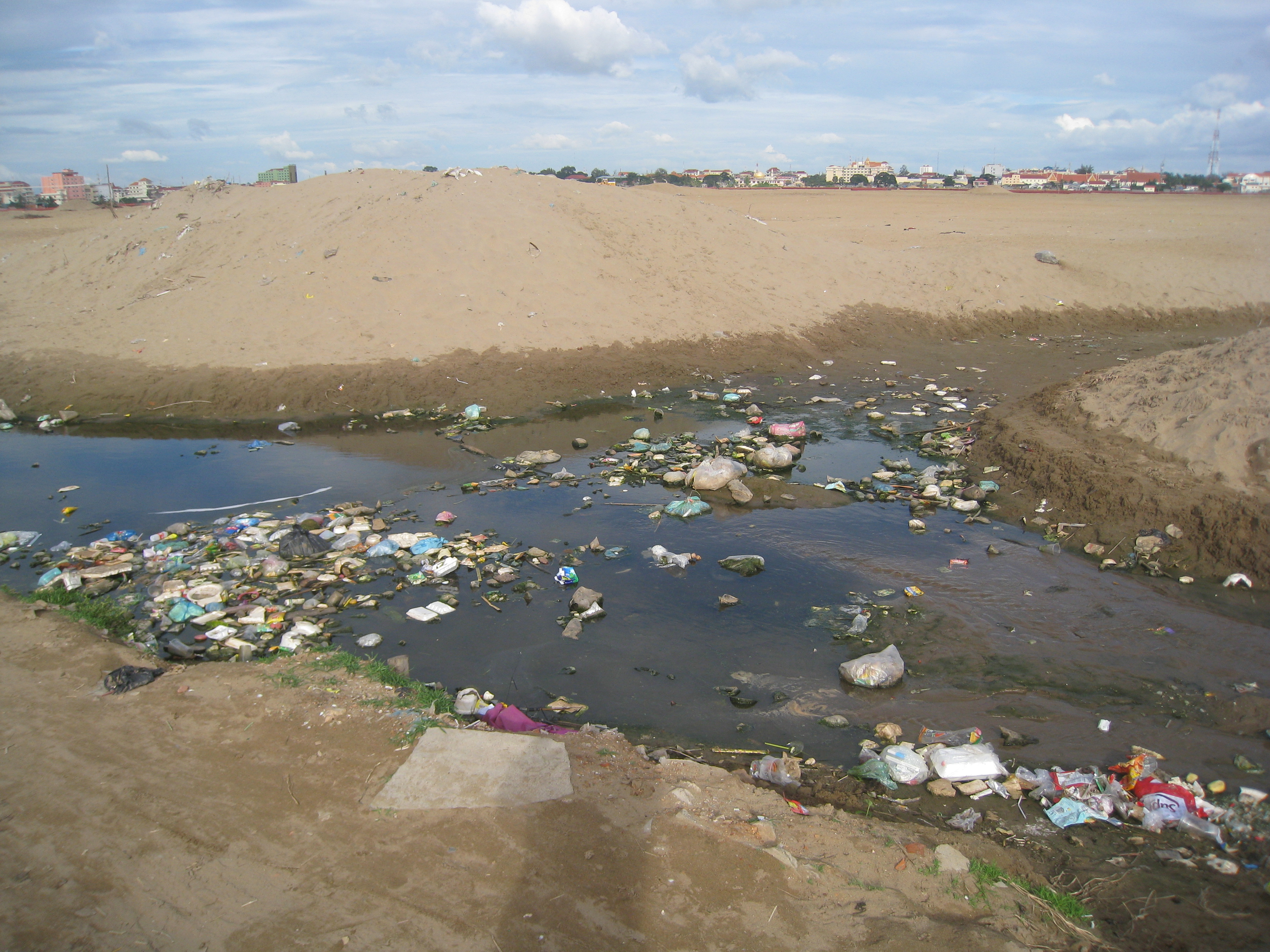 Results of Boeung Kak Lake being filled with sand